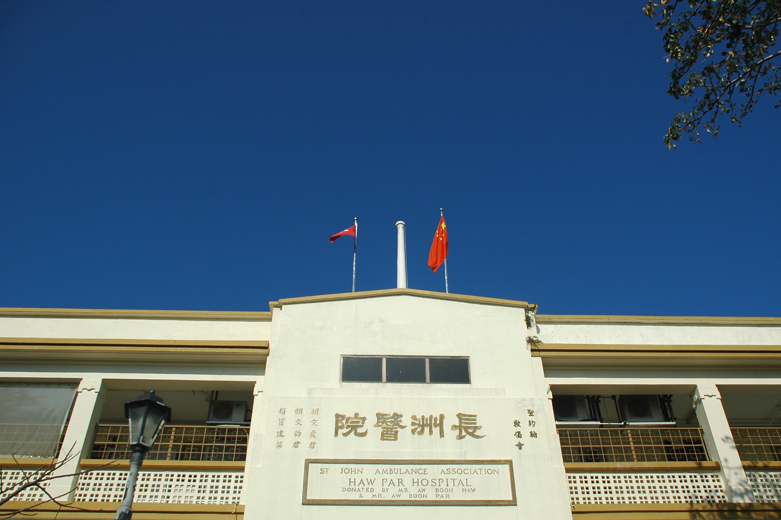 St. John Hospital, Cheung Chau Hospital Road, Tung Wan, Cheung Chau, Hong Kong.